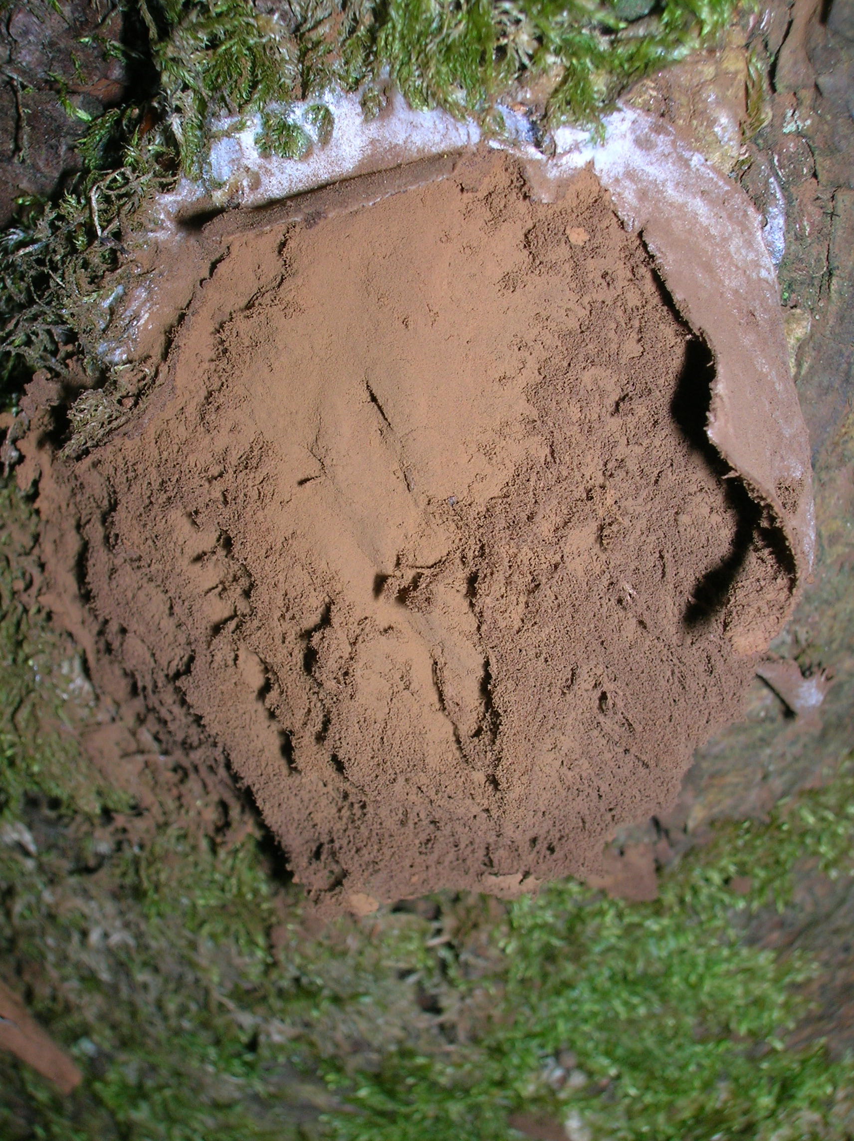 The False Puffball, Enteridium lycoperdon at Spier's, Beith, Ayrshire, Scotland